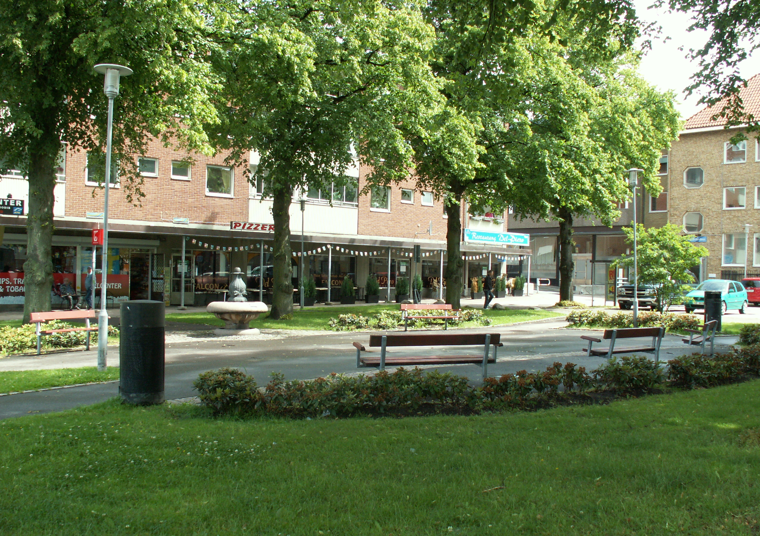 Jægerdorffsplatsen in Majorna, Göteborg, looking south from the corner Slottsskogsgatan/Karl Johansgatan.